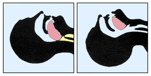 First aid technique for clearing the airways. 1. Tongue has fallen backwards towards the posterior pharynx, blocking the airway. 2. By hyperextending the head and pulling up the chin, the tongue lifts and clears the airway.